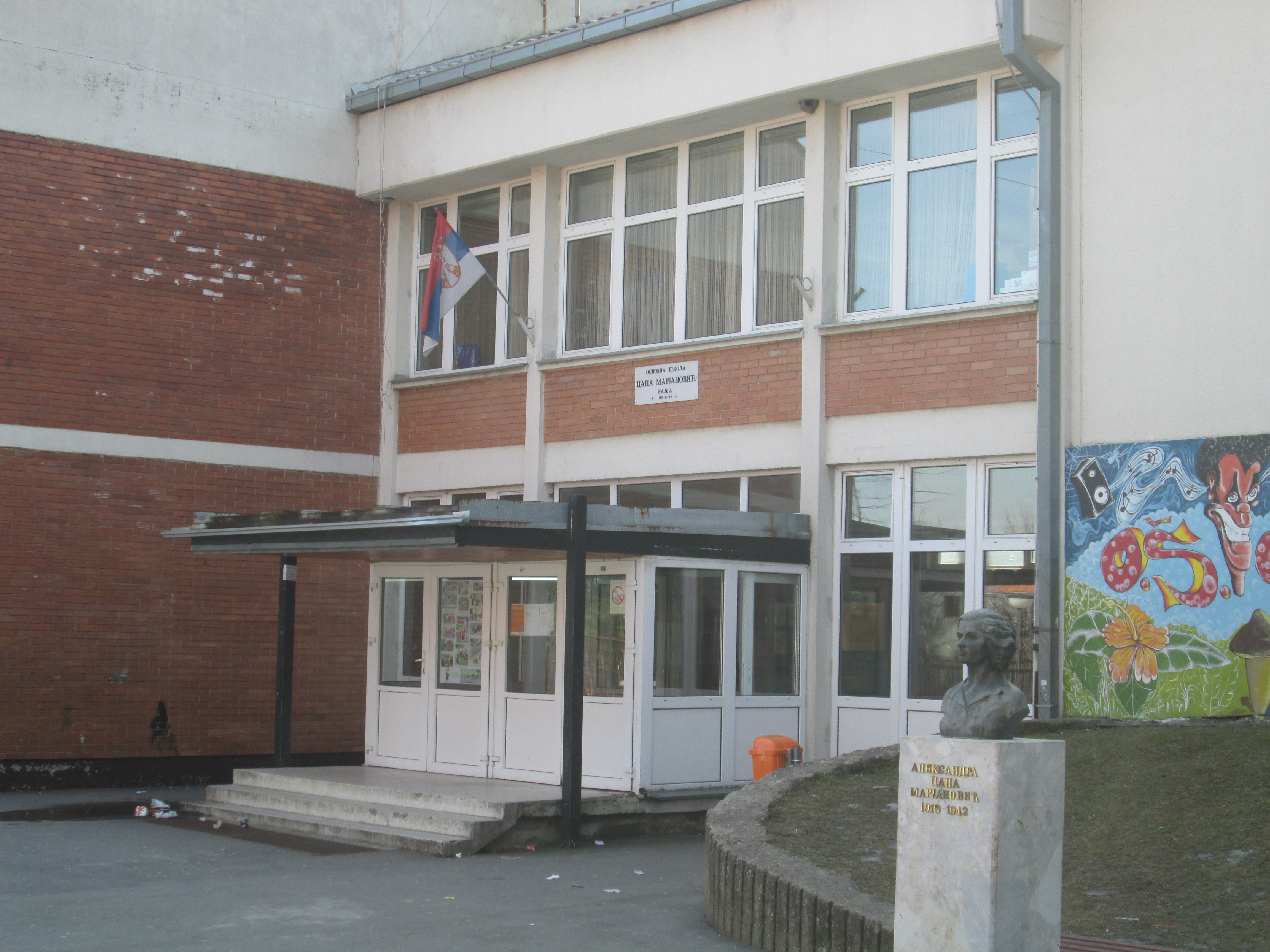 Primary school "Cana Marjanovic", Ralja.Српски (ћирилица): Основна школа „Цана Марјановић“, Раља.